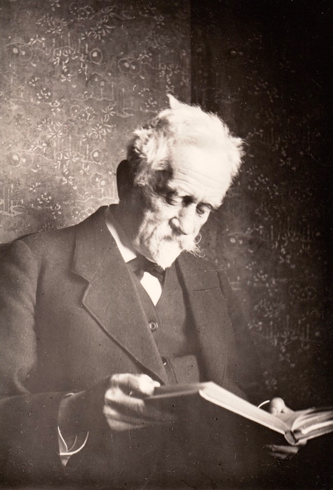 Emil Otto Tafel (1838-1914)